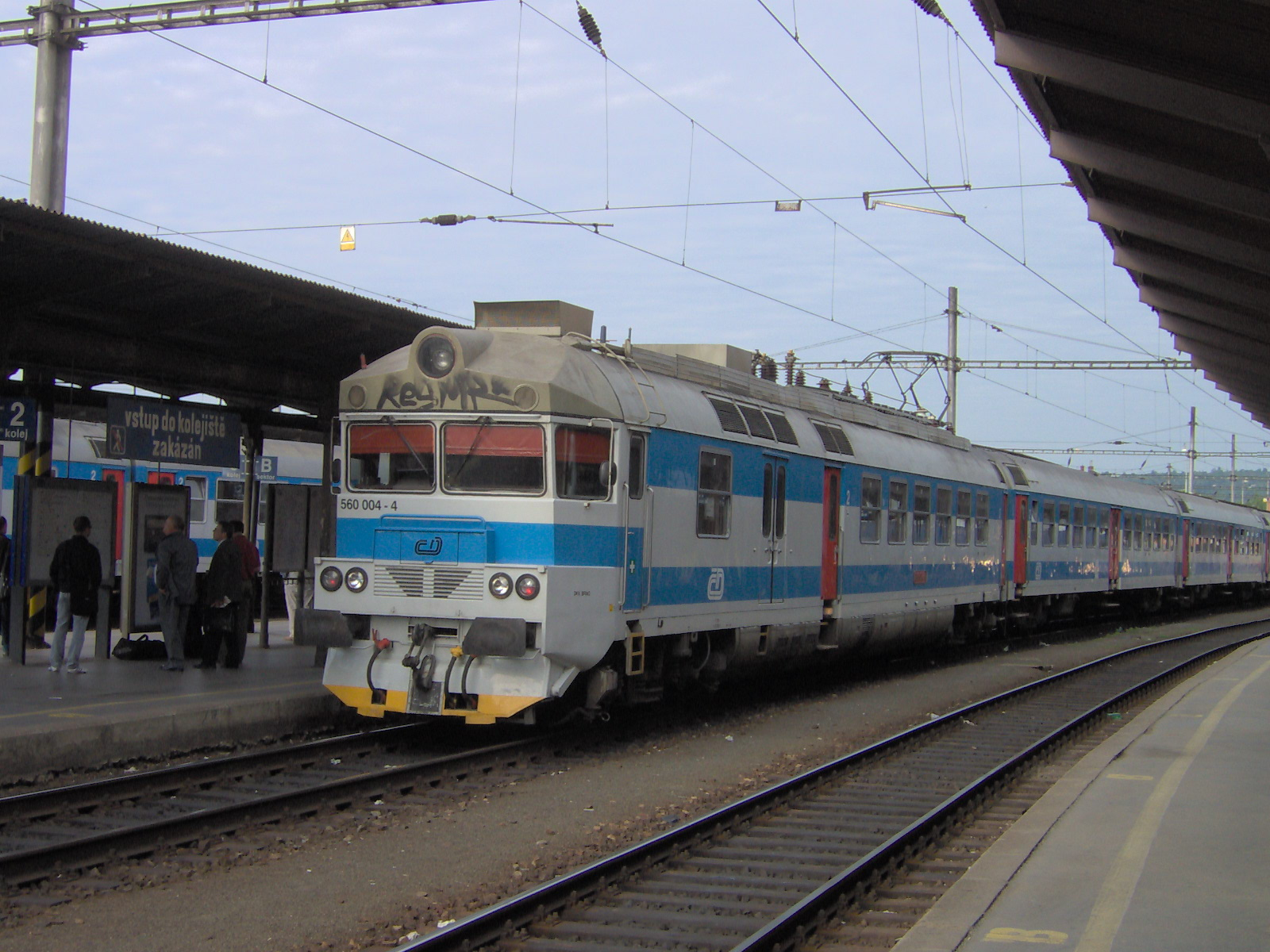 Czech class 560 electric multiple unit in Brno Mainstation